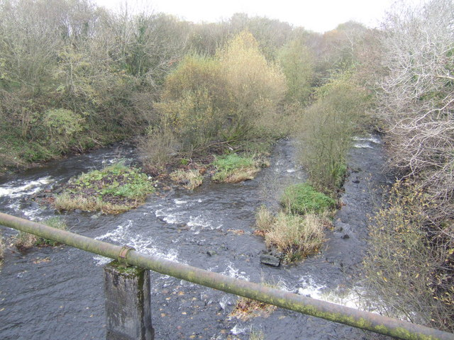 The Kells Water, view downstream. Looks like a totally different river to 611665, viewed from the other side of the bridge.